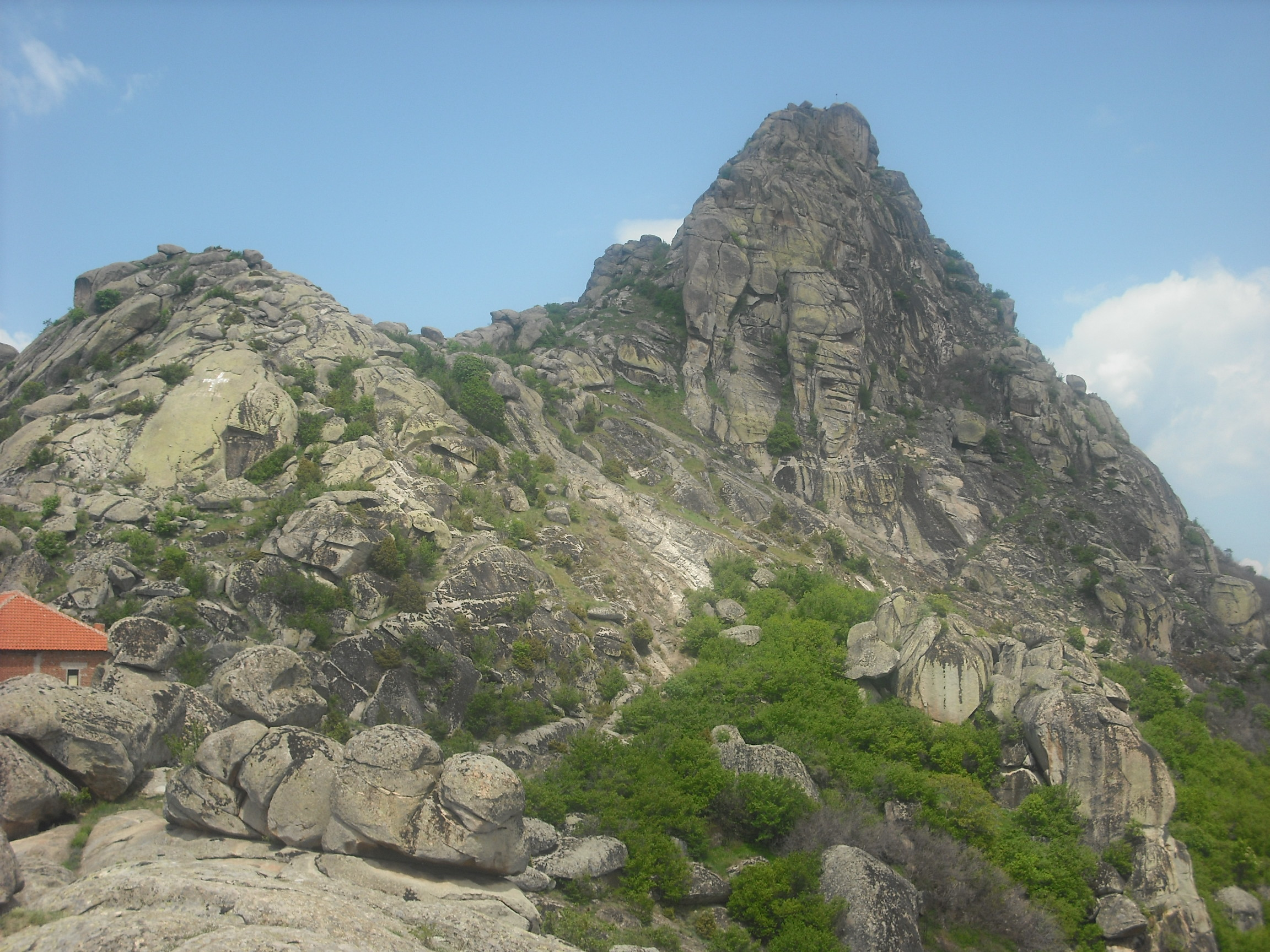 A view on Zlatovrv - the highest peak of Zlato Mountain near Prilep, Republic of Macedonia